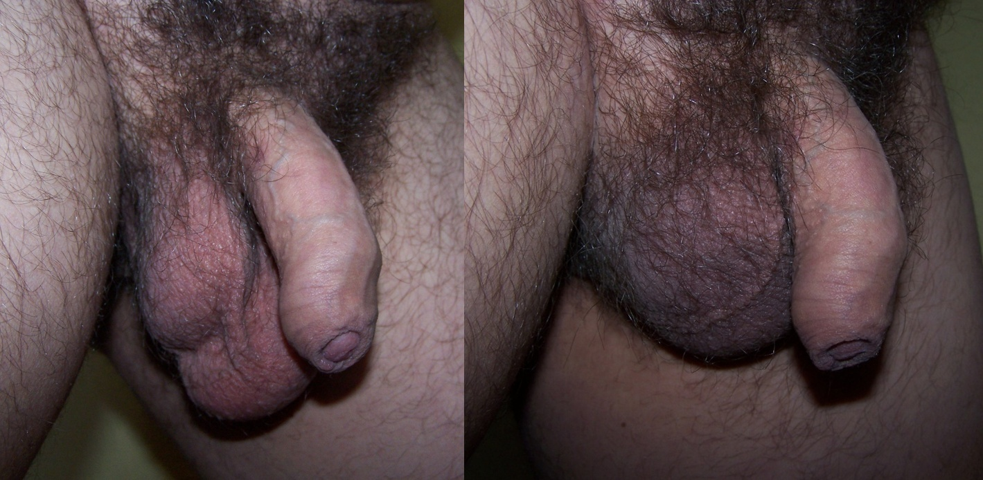 Scrotum